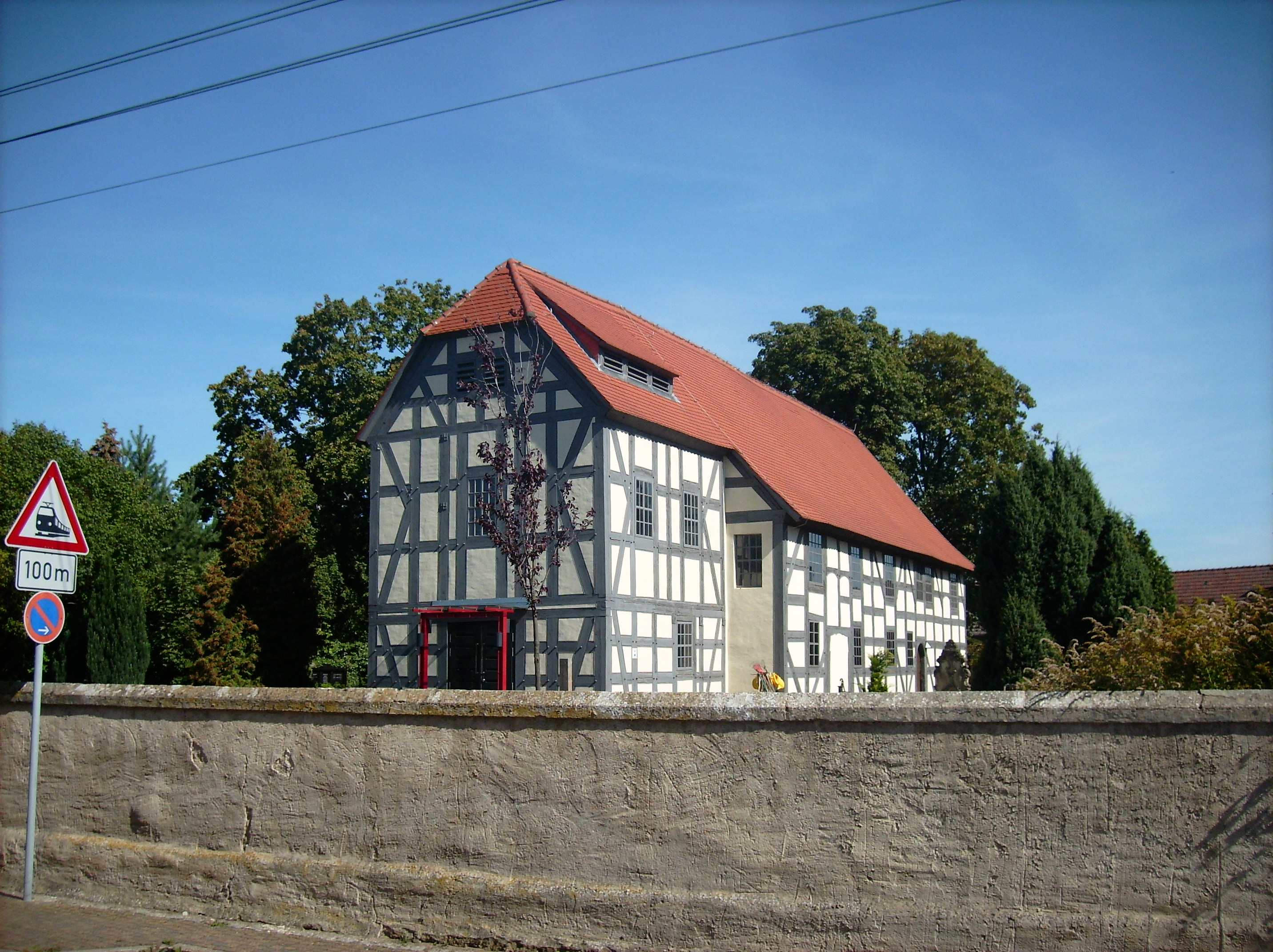 Half-timbered church in Alt Herzberg (Herzberg/Elster, Elbe-Elster district, Brandenburg)